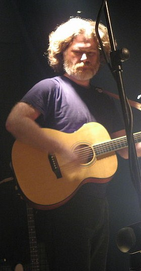 Musician John Collins plays with The New Pornographers in El Sol in Madrid, Spain in October 2007. photographed by Eduardo. This image is a cropped and shrunken version of the original picture.